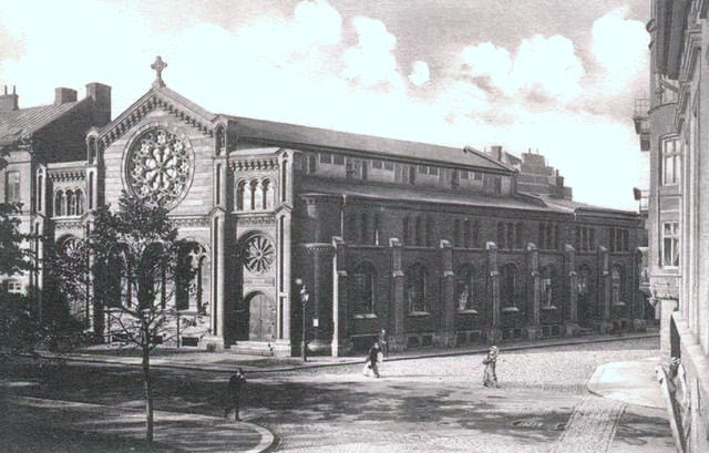 The Bethel chapel in Malmö, in Sweden.